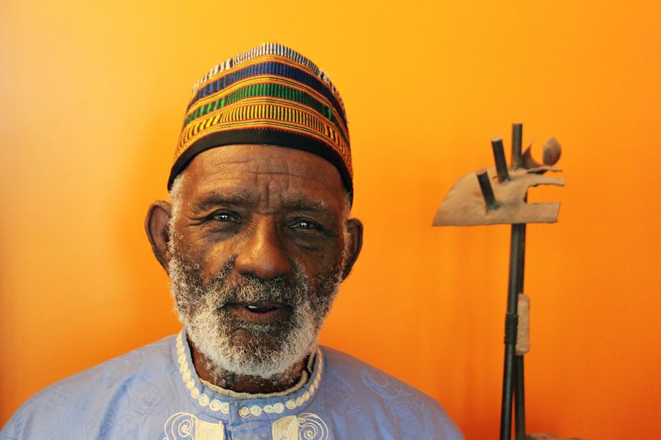 Ghanaian photographer James Barnor visiting the African Studies Centre, Leiden University, 21 March 2016